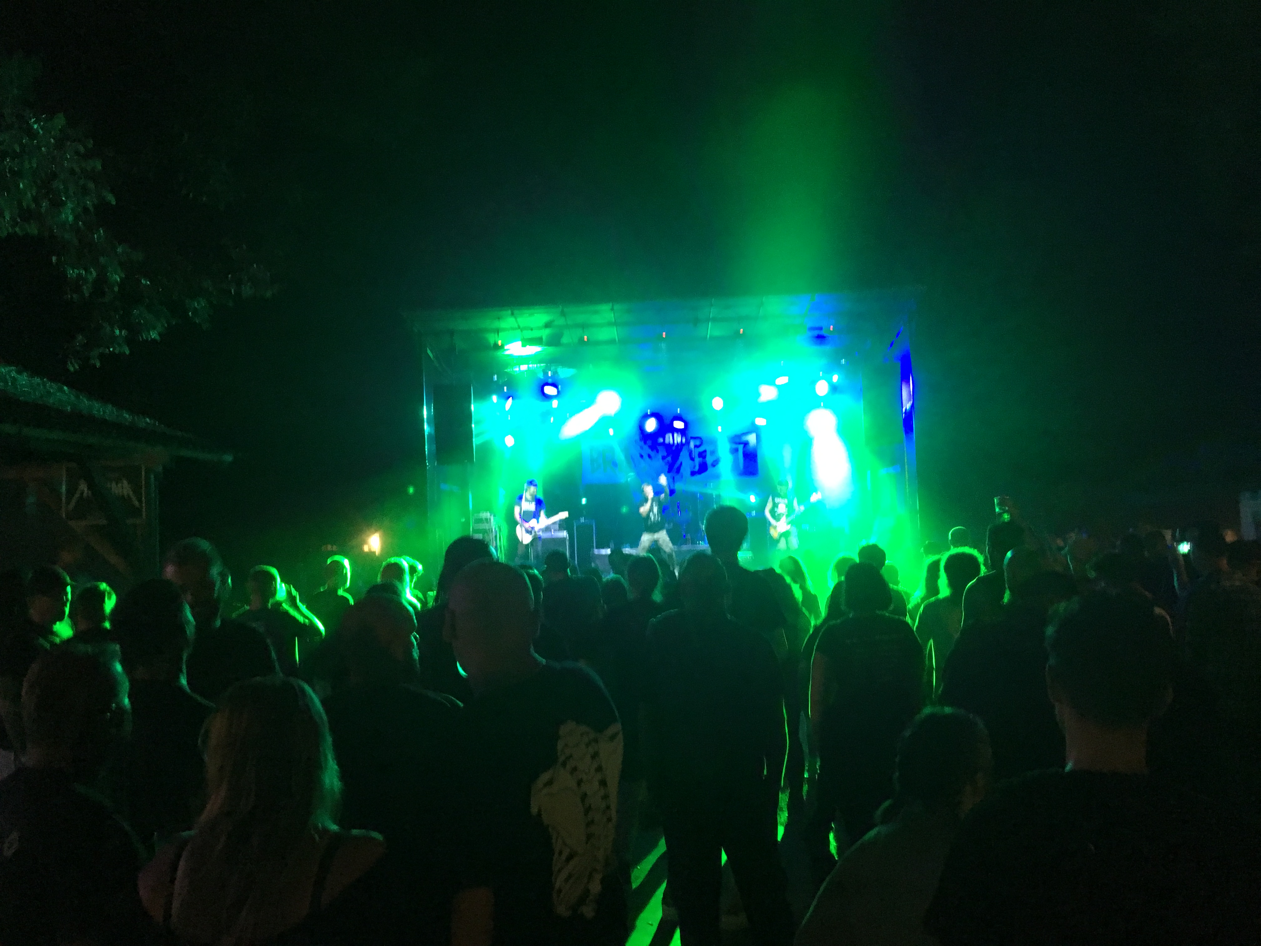 A two-day long slovenian open air grindcore/goregrind/hardcore festival in Srednja Bistrica, Prekmurje, Slovenia.